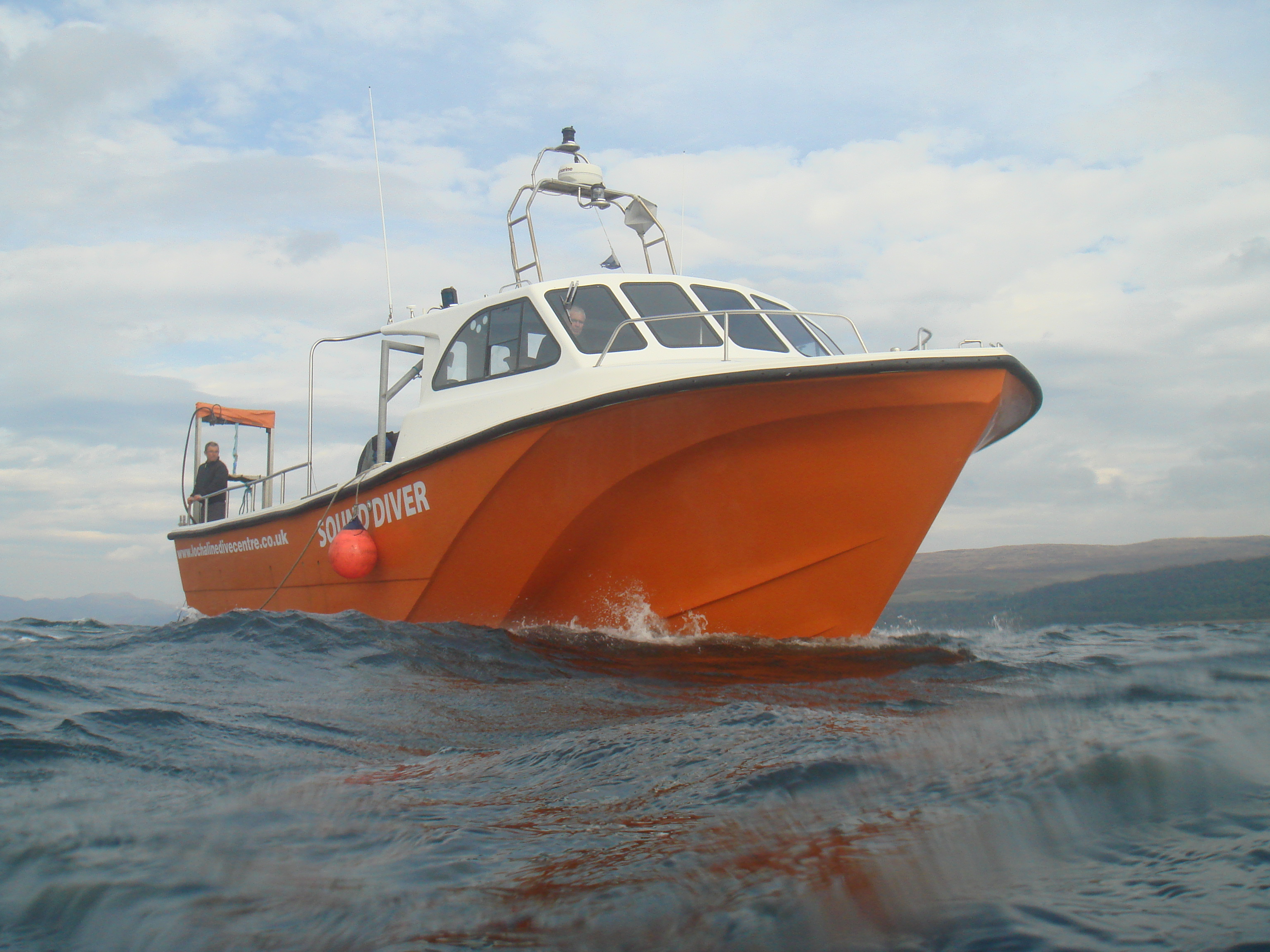 Sound Diver I, an Offshore 125 GRP diving charter vessel, owned by Lochaline Dive Centre and operating out of Lochaline, Argyle and Bute, operating in the Sound of Mull. The vessel is powered by two Caterpillar diesel engines and fitted with its own diving air compressor.